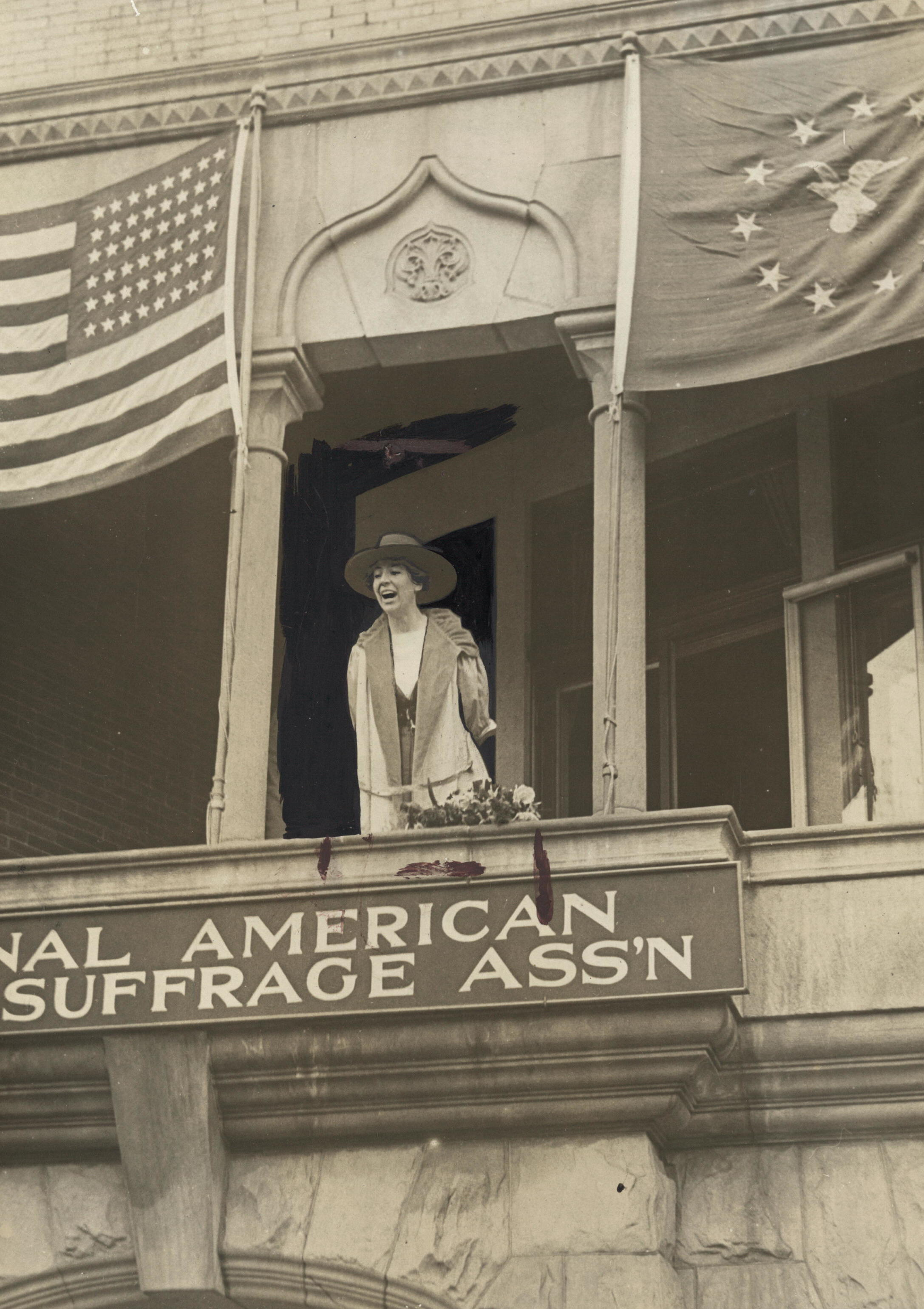 Title: Miss Jeannette Rankin, of Montana, speaking from the balcony of the National American Woman Suffrage Association, Monday, April 2, 1917. By C. T. Chapman, Kensington, Md. (Photographer) Contributor Names: C. T. Chapman, Kensington, Md. (Photographer) Created / Published 1917 Apr. 2 Subject Headings - Suffragists--United States--1910-1920 - Women's rights--United States - National American Woman Suffrage Association - Rankin, Jeannette, 1880-1973 - National Woman's Party--Speakers - Women--Suffrage--Montana - Politicians - Photographs - United States -- Montana Genre Photographs Notes: - Title transcribed from item. - Summary: Photograph of Jeannette Rankin, at NAWSA headquarters, speaking from balcony, flags festooned above her. - Photograph has been retouched and marked with crop marks for publication purposes. - Cropped version of the photograph published in The Suffragist, 5, no. 63 (Apr. 7, 1917): 7. Captioned: "Jeannette Rankin Makes Her First Speech in Washington." Illustration for story "The Capitol Welcomes Jeannette Rankin." Medium 1 photograph: print; 5 x 7 in. Call Number/Physical Location Location: National Woman's Party Records, Group I, Container I:156, Folder: Rankin, Jeannette Source Collection Records of the National Woman's Party Repository Manuscript Division Digital Id //hdl.loc.gov/loc.mss/mnwp.156007